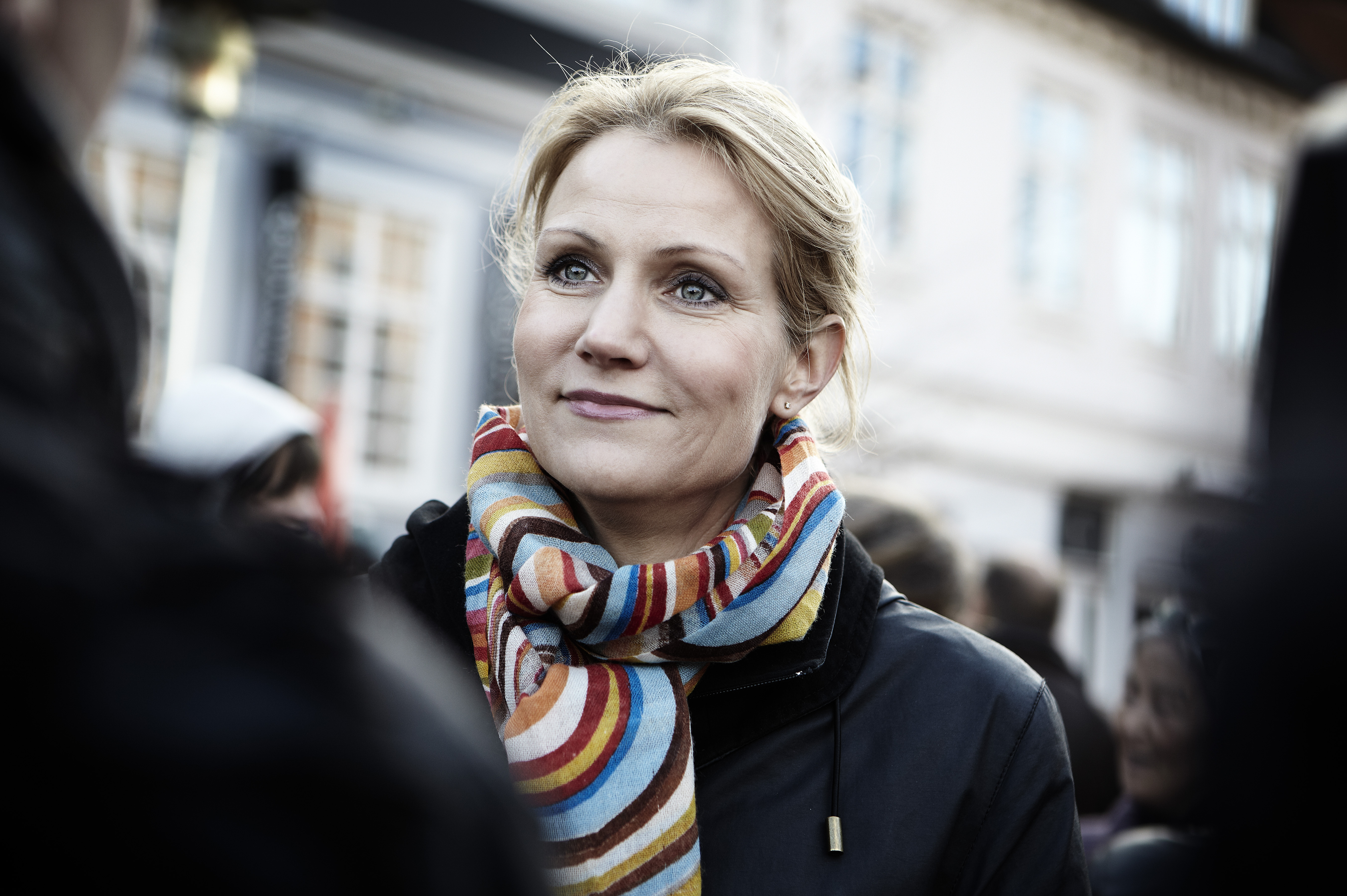 Helle Thorning-Schmidt, Prime Minister of Denmak